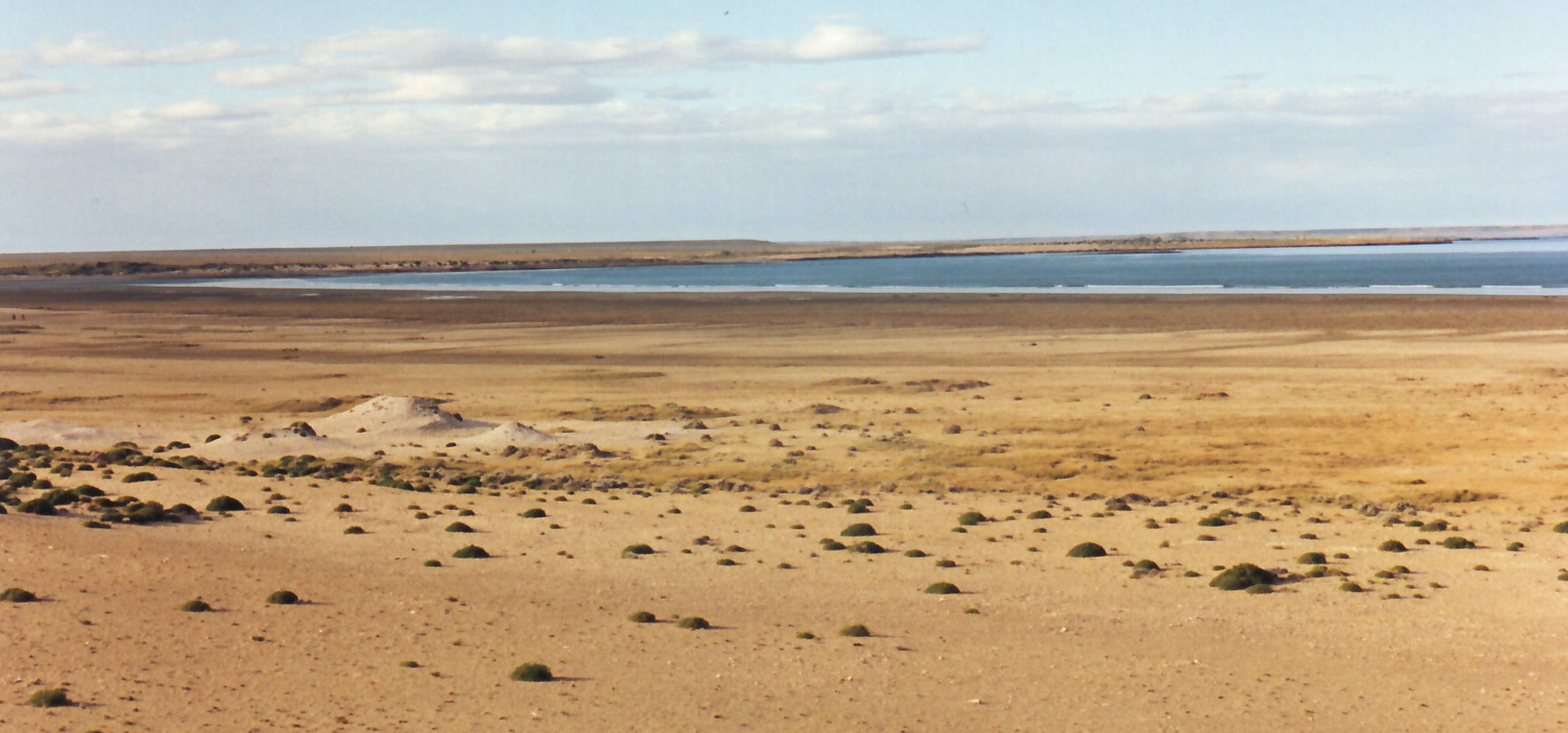 View to the north of the beach of Punta Medanosa